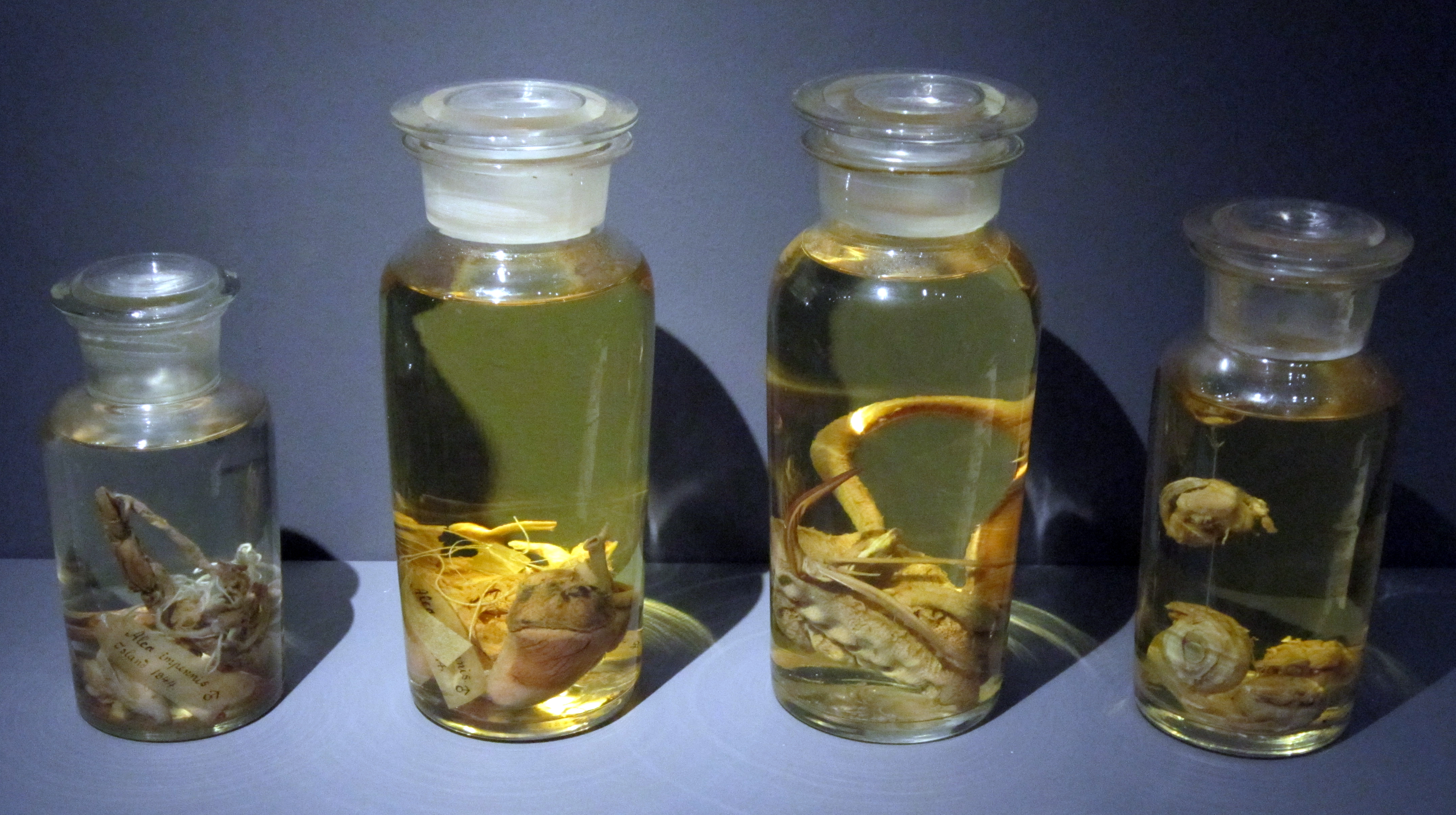 Internal organs of the last two great auks, Zoological Museum of Copenhagen.